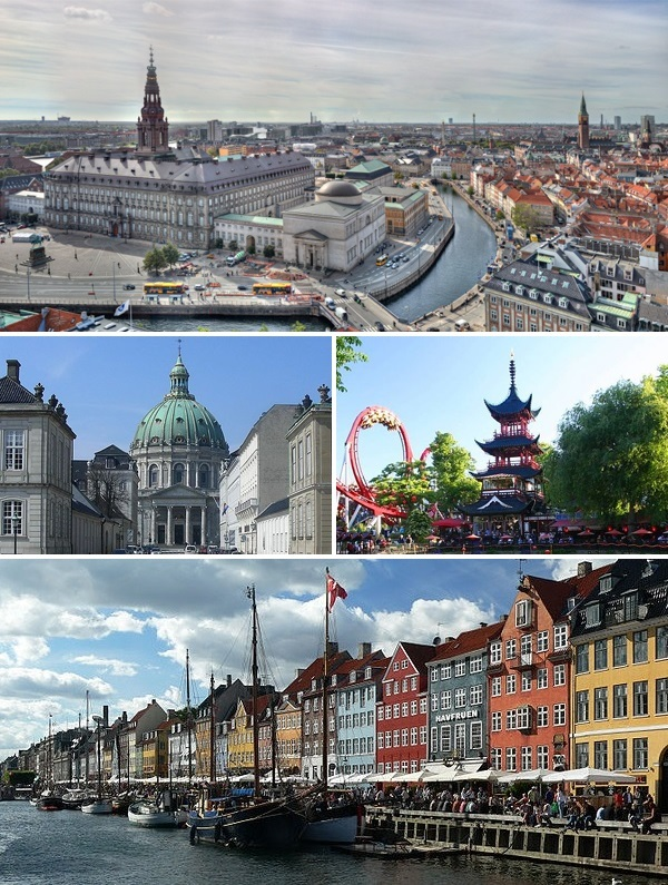 Montage of Copenhagen